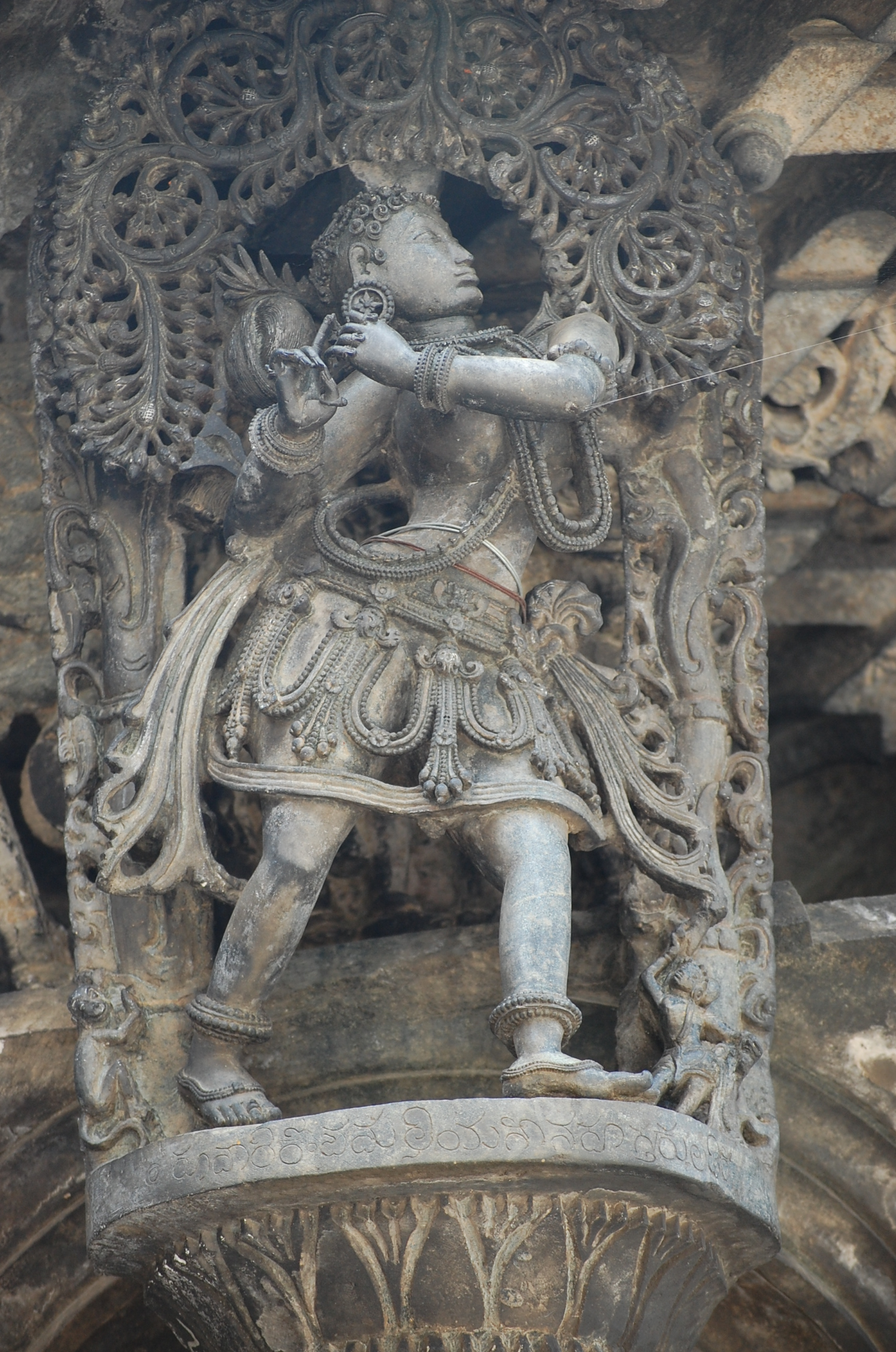 shilabalika 6